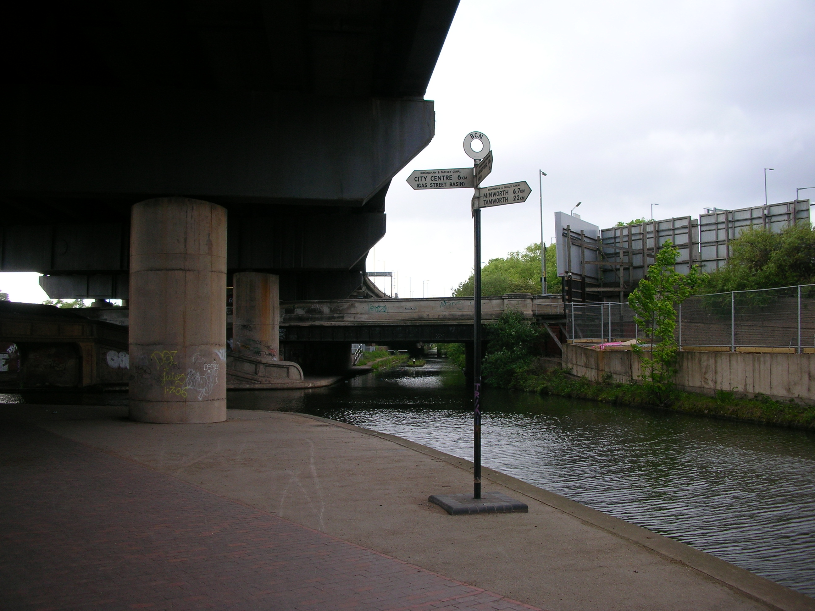 Salford Junction, Birmingham, England. Ahead, the start of the Tame Valley Canal (with an old toll island). To the left the Birmingham and Fazeley Canal to Aston Junction and Birmingham. Behind, the Birmingham and Fazeley to Fazeley and the Grand Union Canal to Bordesley Junction and London. The M6 Motorway above. Photographed by me 12 May 2007. Oosoom